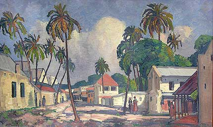 From source site: PIERNEEF, JACOB HENDRIK (SA 1886 - 1957) Oil on board, Landscape - "Dar-es-Salaam", signed & inscribed with the title on the reverse, circa 1926 (60 x 98.5cm) Provenance: From the private collection of the late Thomas William Nicolaas Hitge, a former Judge President of the Transvaal & Mayor of Potchefstroom, as well as one of the founding members of the Pretoria law firm MacRobert, de Villiers & Hitge. According to the family Mr Hitge was a personal friend of the artist J H Pierneef, & he acquired the painting directly from the artist where it hung in the family home at 770 Government Avenue, Brynterion, Pretoria Est R300 000–R500 000 - SOLD FOR 1 000 000 - February 2006